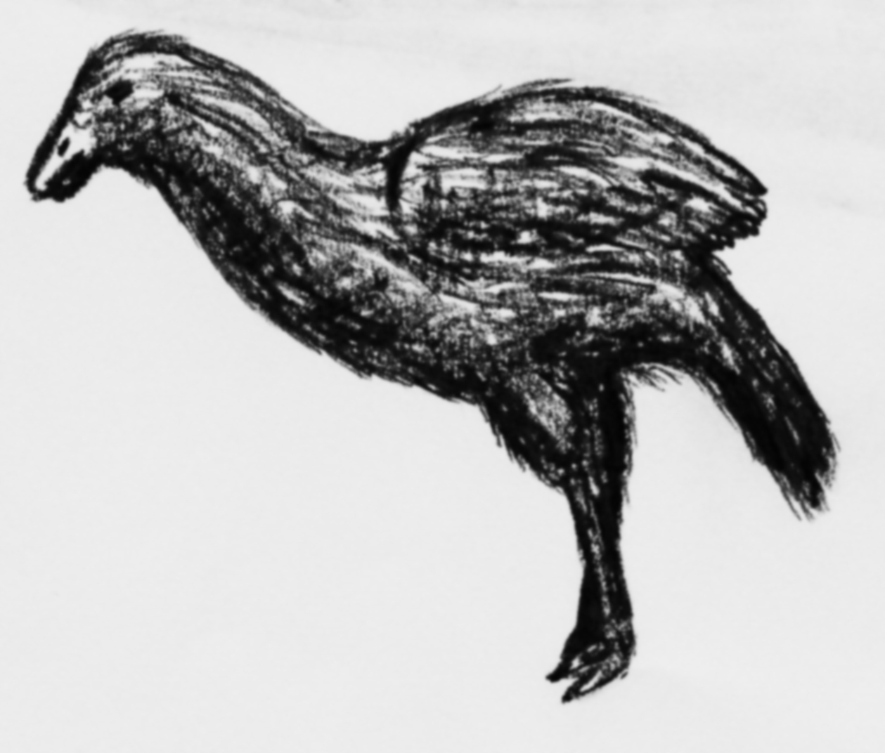 pencil drawing of the bird hollanda luceria